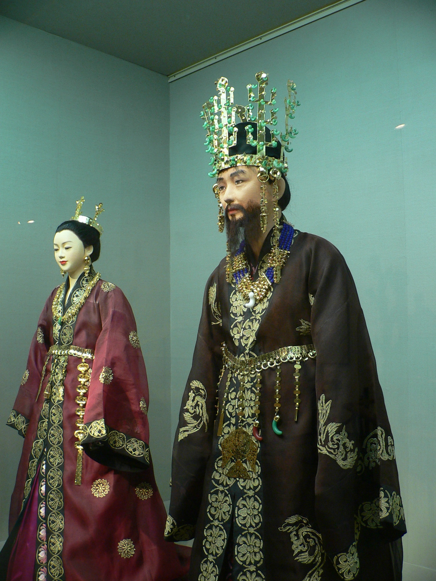 The models of king and queen of Silla Kingdom are displayed at “National Folk Museum of Korea”, Seoul, South Korea